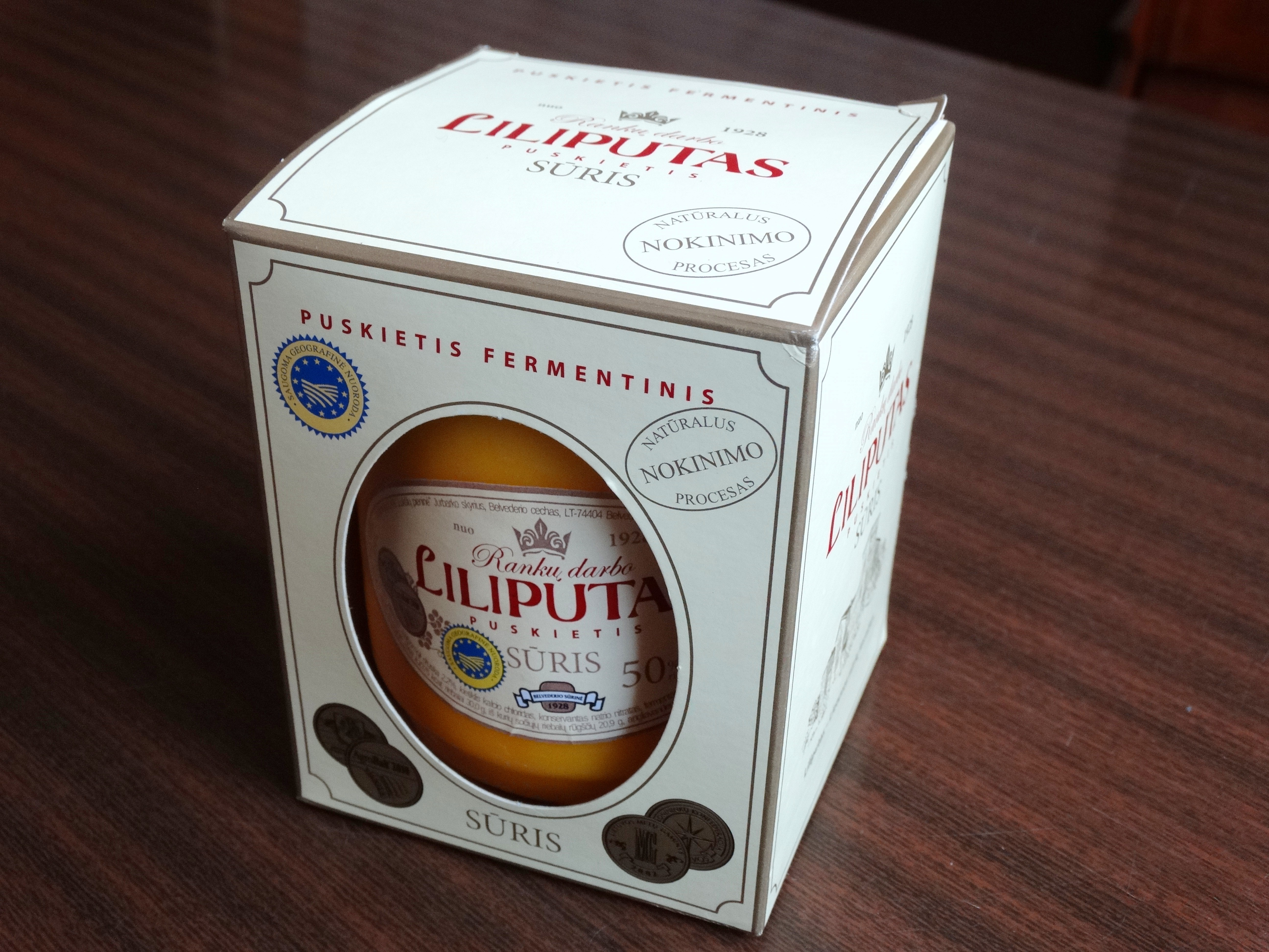 Traditional Lithuanian food: cheese „Liliputas“